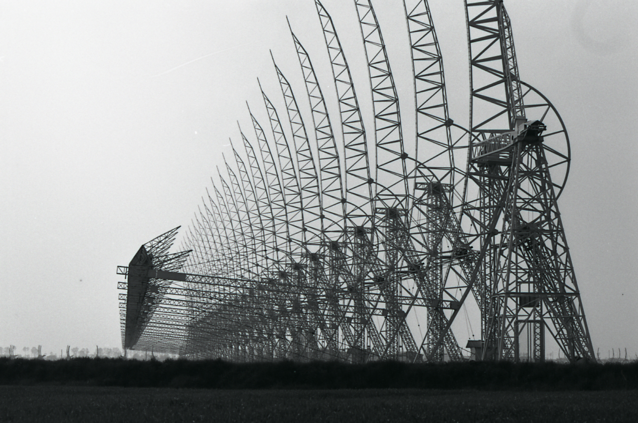 Part of the Northern Cross Radio Telescope at the Medicina Radio Observatory located 30 km from Bologna, Italy. It is a fixed cylindrical parabolic antenna receiving around 408 MHz. A wire screen (not visible) supported by the fence-like structure (left) serves as a cylindrical parabolic reflector which focuses the incoming radio waves onto the line of dipole feed antennas (left). The reflector can be tilted to point the telescope to different locations in the sky along the local celestial meridian, but is fixed in azimuth. With a surface area of 27400 square meters it is the largest UHF band antenna in the Northern Hemisphere. Photo Report: Medicine, 1974 / Paolo Monti. - Strips: 7, total frames: 35: Negative B / W, gelatin silver bromide / film; 35 mm. - ((On the negative carrier: N [I] K [MA] T PanF. - Occasion: Publication. - Source: Paul Monti Agenda: Leica 1501-3000 numbering Control (1950-1978), at Archive Paolo Monti. - Source: monograph by University [Bologna studies]: historic settlement Review: catalog raisonné of university building projects in urban annotated report, Bologna, Tip. Labati and Nanni (1974). - source: Paul Monti Invoice: IV. construction Contracts / Invoice n. 16 (09.17.1974), at Archive Paolo Monti